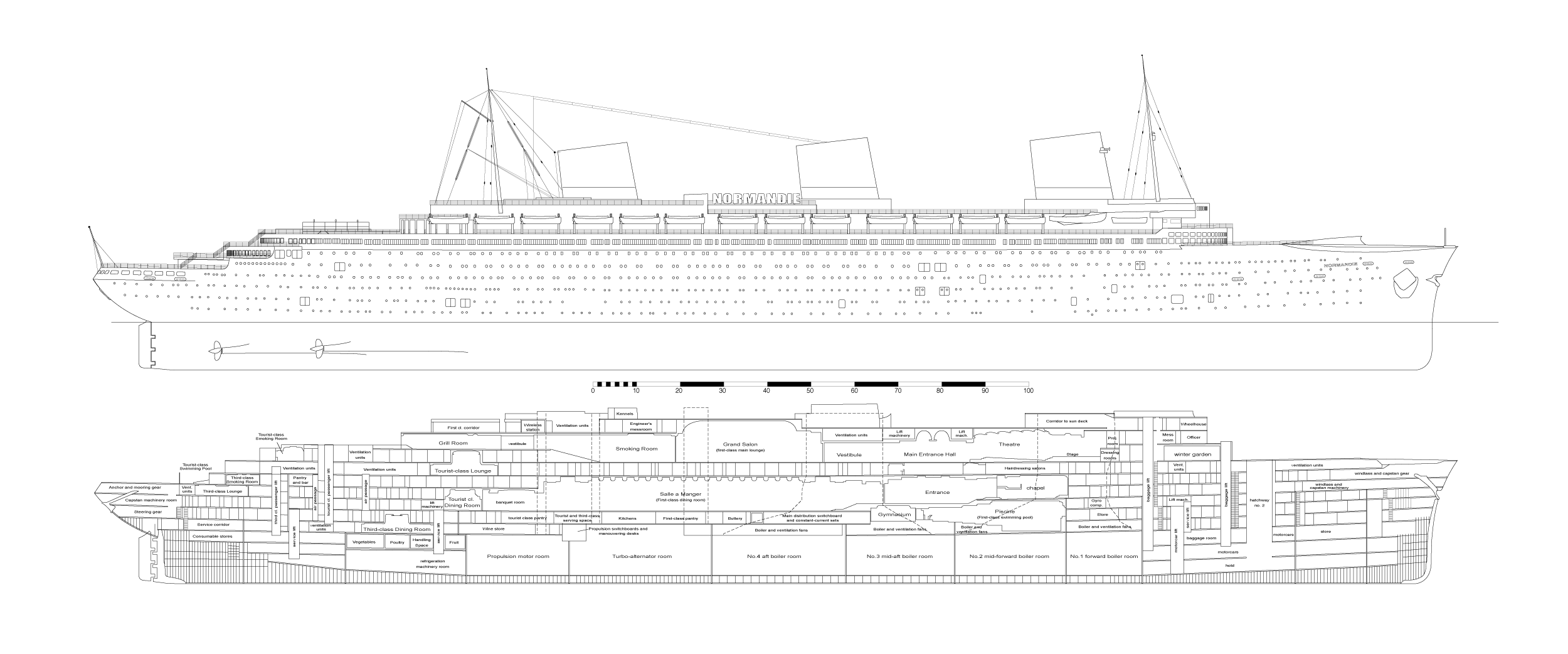 SS Normandie side elevation and cutaway, drawn by John Conway (Nyctopterus), 2004, from plans in The Shipbuilder and Marine Engine Builder, 1935. The scale on the image is in metres.